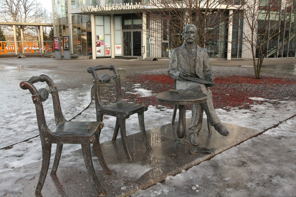 Gustav Fabergé kuju Pärnus